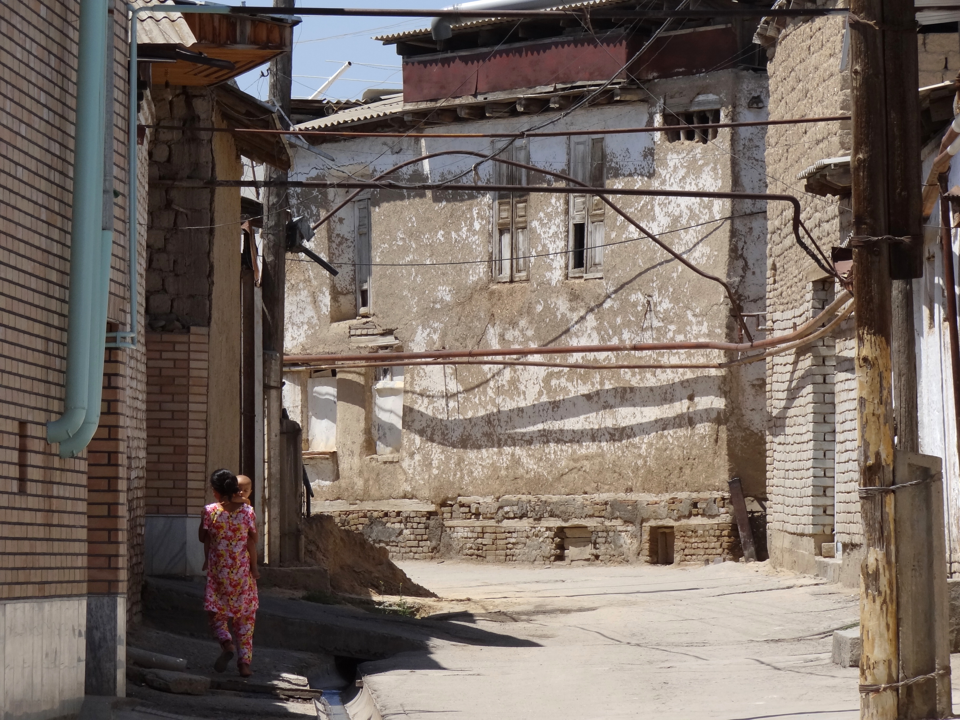 Old City (Jewish Quarter) Street Scene - Samarkand - Uzbekistan - 02